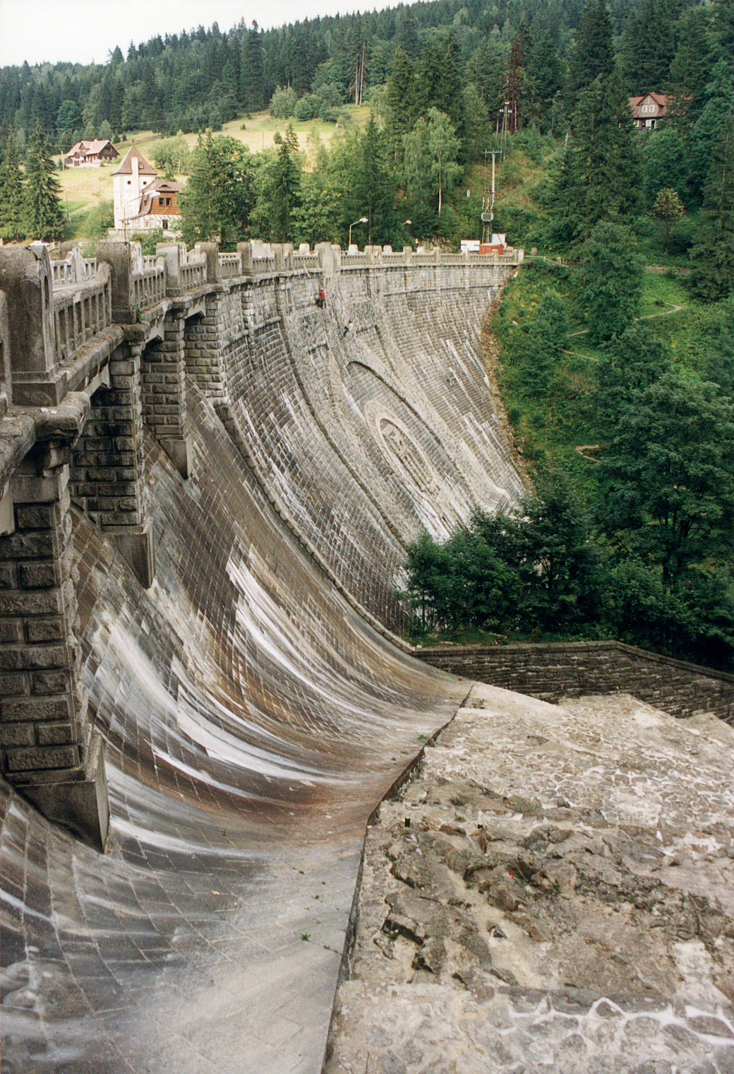 River Elbe. Concrete dam of the dam between Špindlerův Mlýn and Vrchlabí, Czech